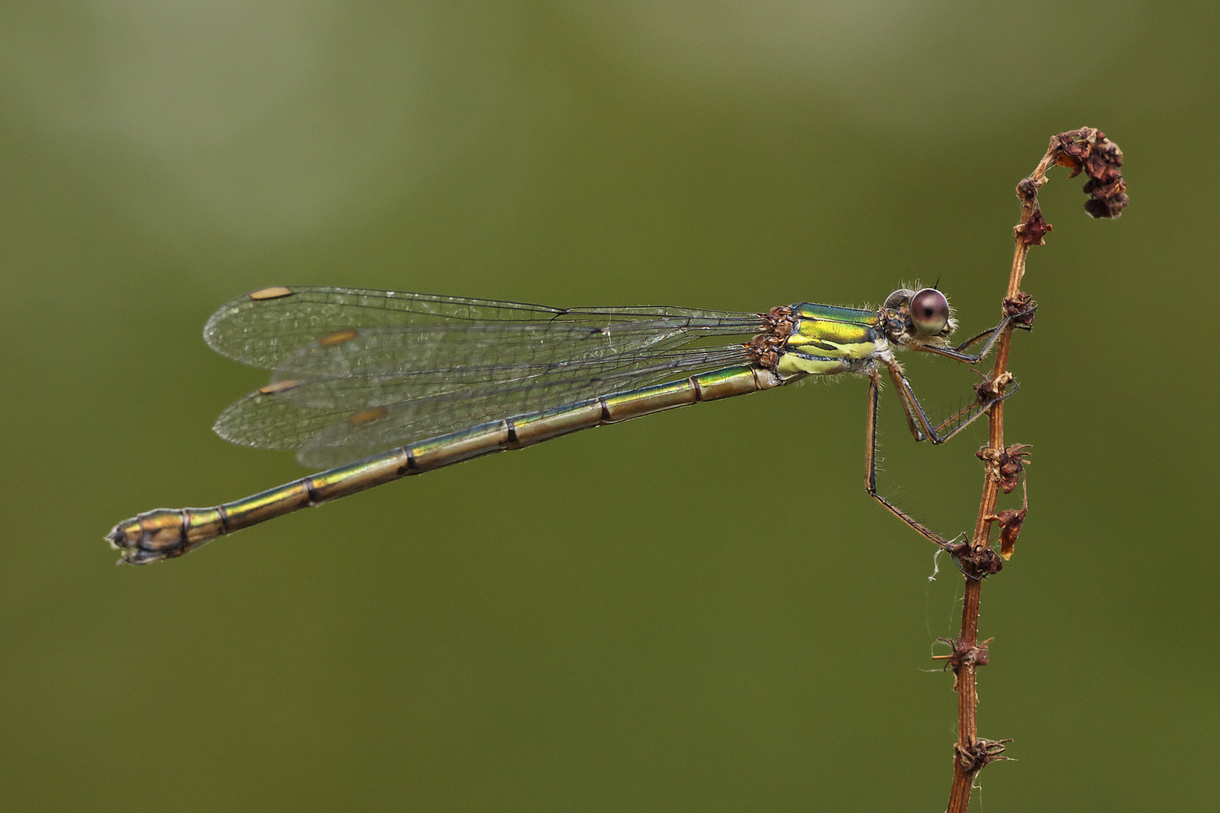 Female Willow Emerald Damselfly (Chalcolestes viridis), Wittgensdorf, Germany